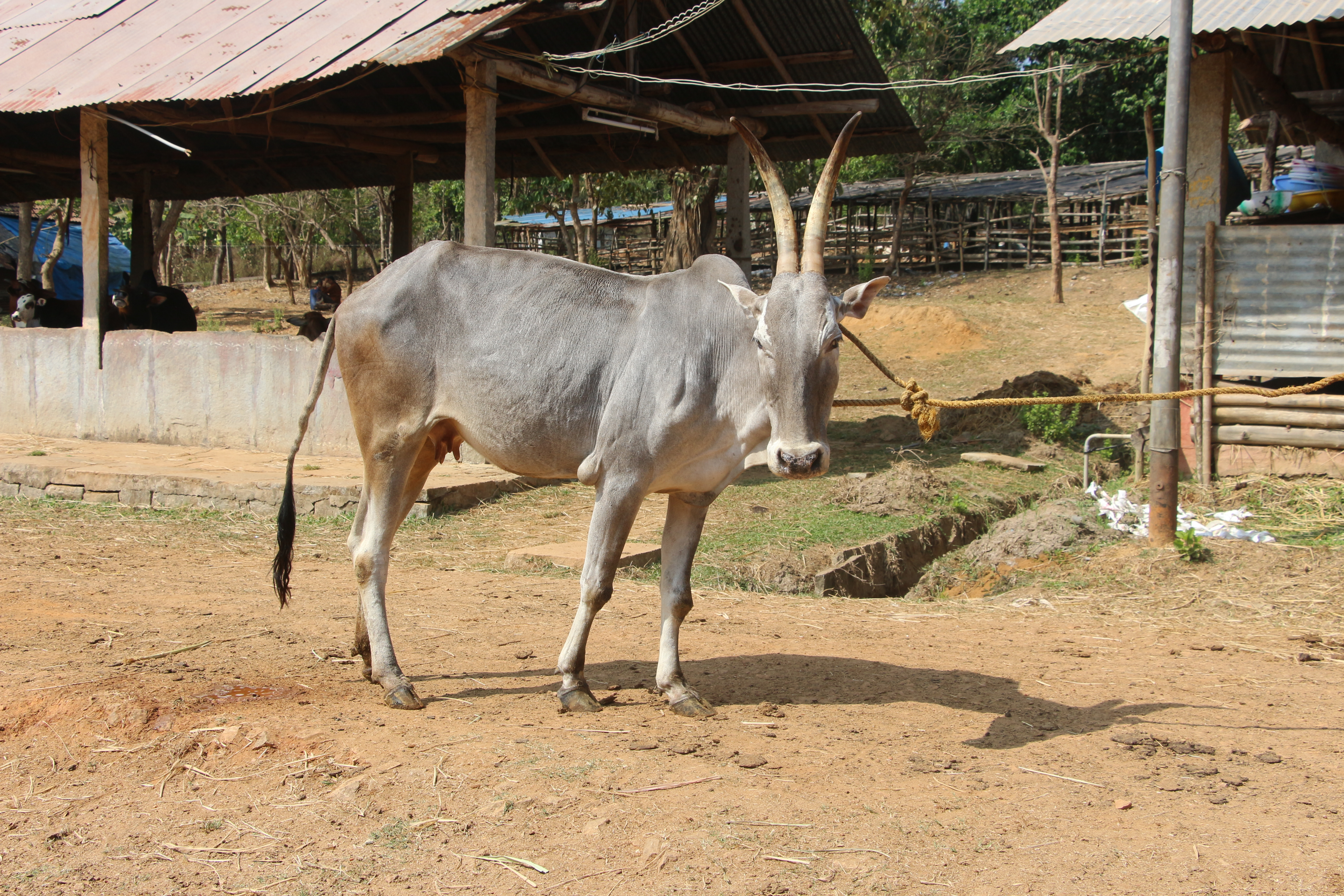 Indian cow breed Hallikaru ಕನ್ನಡ: ಭಾರತೀಯ ಗೋತಳಿ ಹಳ್ಳಿಕಾರು